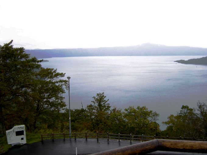 Lake Towada (Towada-ko), Aomori Prefecture and Akita Prefecture, Tohoku region, Honshu, Japan.